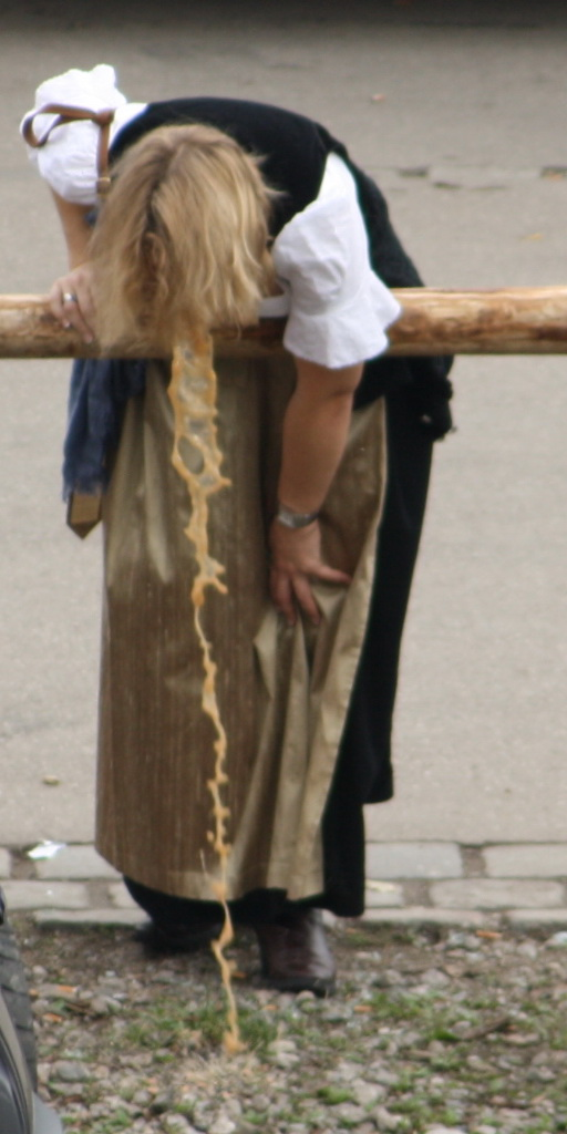 Woman vomits, after drinking too much alcohol.